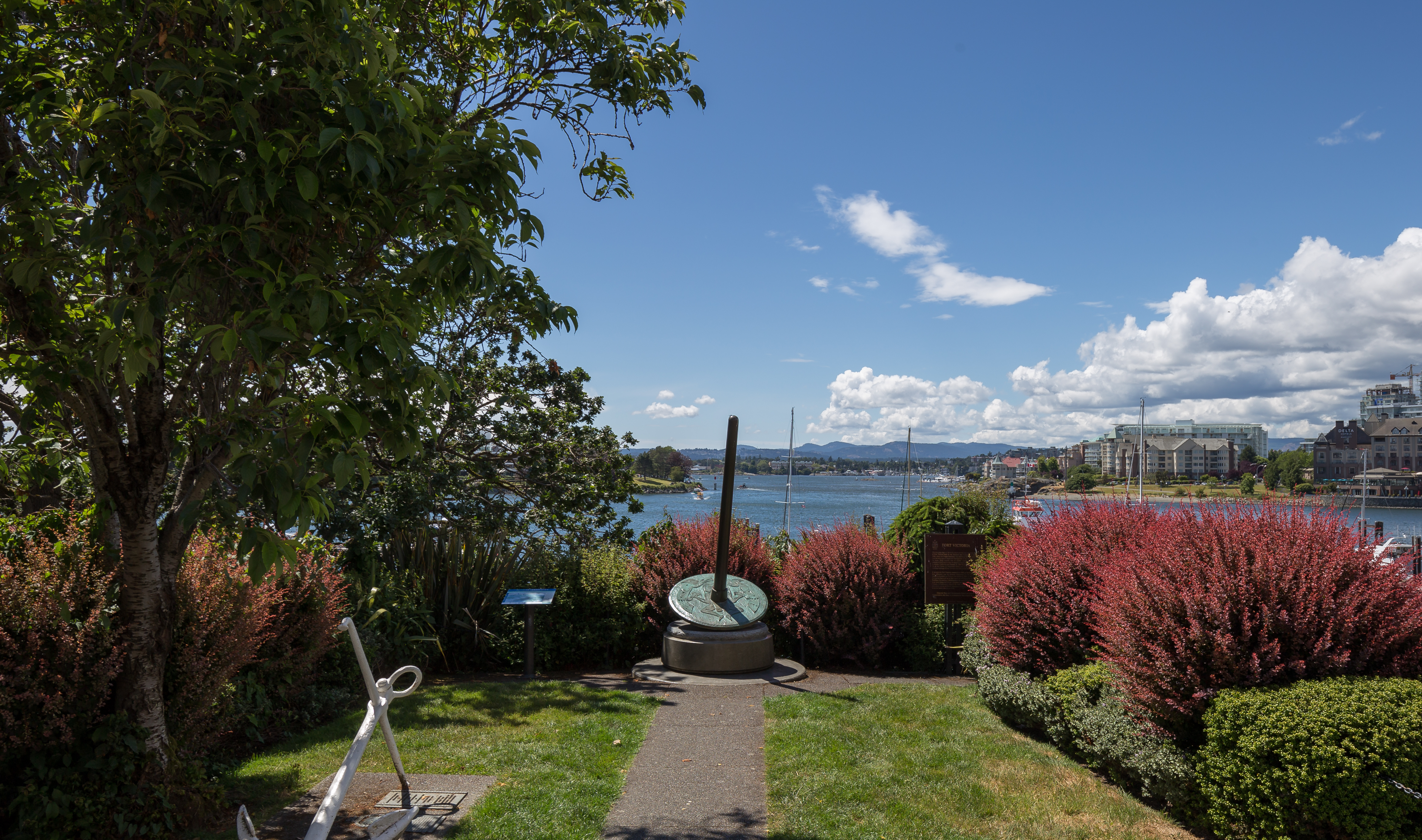 Fort Victoria National Historic Site of Canada, Victoria, British Columbia, Canada